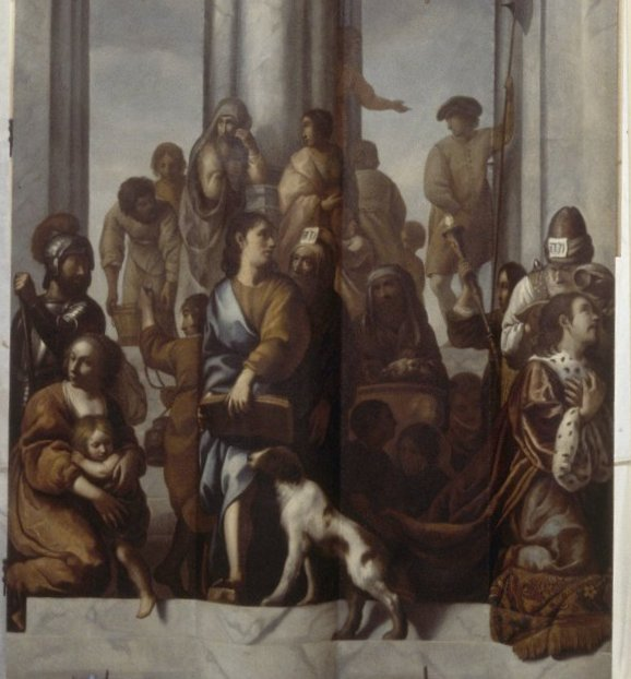 Detail of organ shutter from photo taken at time of restauration. Nieuwe Kerk, Amsterdam This image is available from the Netherlands Institute for Art Historyunder digital ID 50606. This tag does not indicate the copyright status of the attached work. A normal copyright tag is still required. See Commons:Licensing for more information.